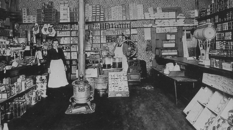 Interior of a dry grocer, downtown Vancouver, Washington, circa 1909.